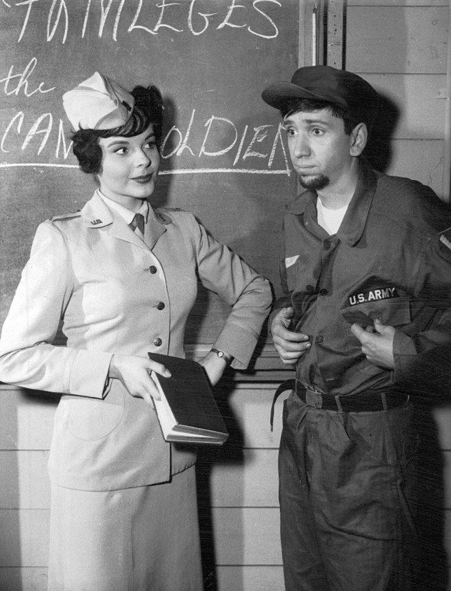 Photo of Bob Denver as Maynard G. Krebs and Kaye Elhardt from the comedy television series The Many Loves of Dobie Gillis. Maynard was not prepared to lose his beard when he joined the Army. The item has no copyright markings on it as can be seen in the links above.